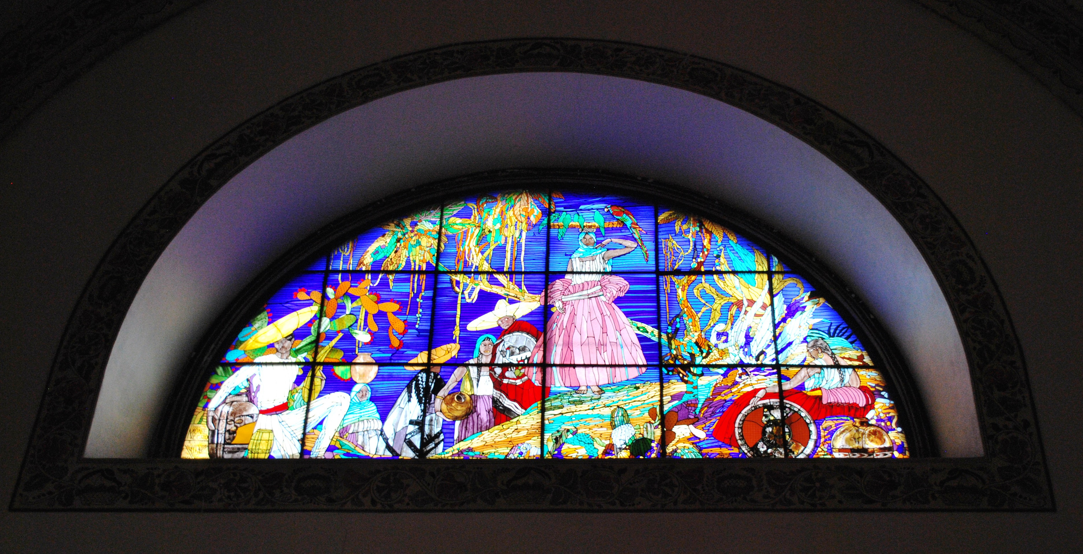 Stained glass work entitled "La Vendedora de Pericos" (The Parrot Seller) designed by Roberto Montenegro and Xavier Guerrero in the 1920s. Located in Museo de las Constituciones in the historic center of Mexico City.